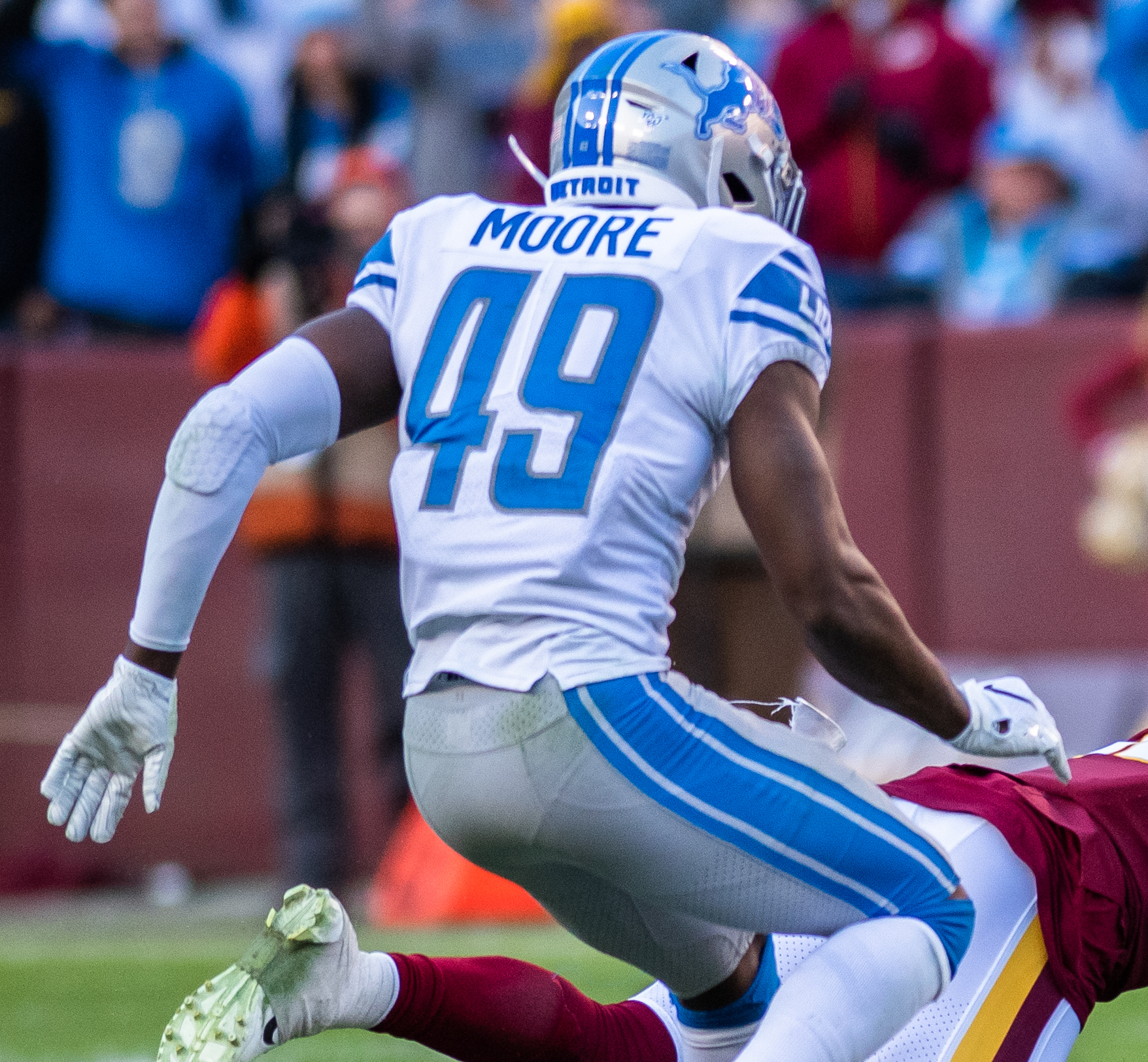 In 2019